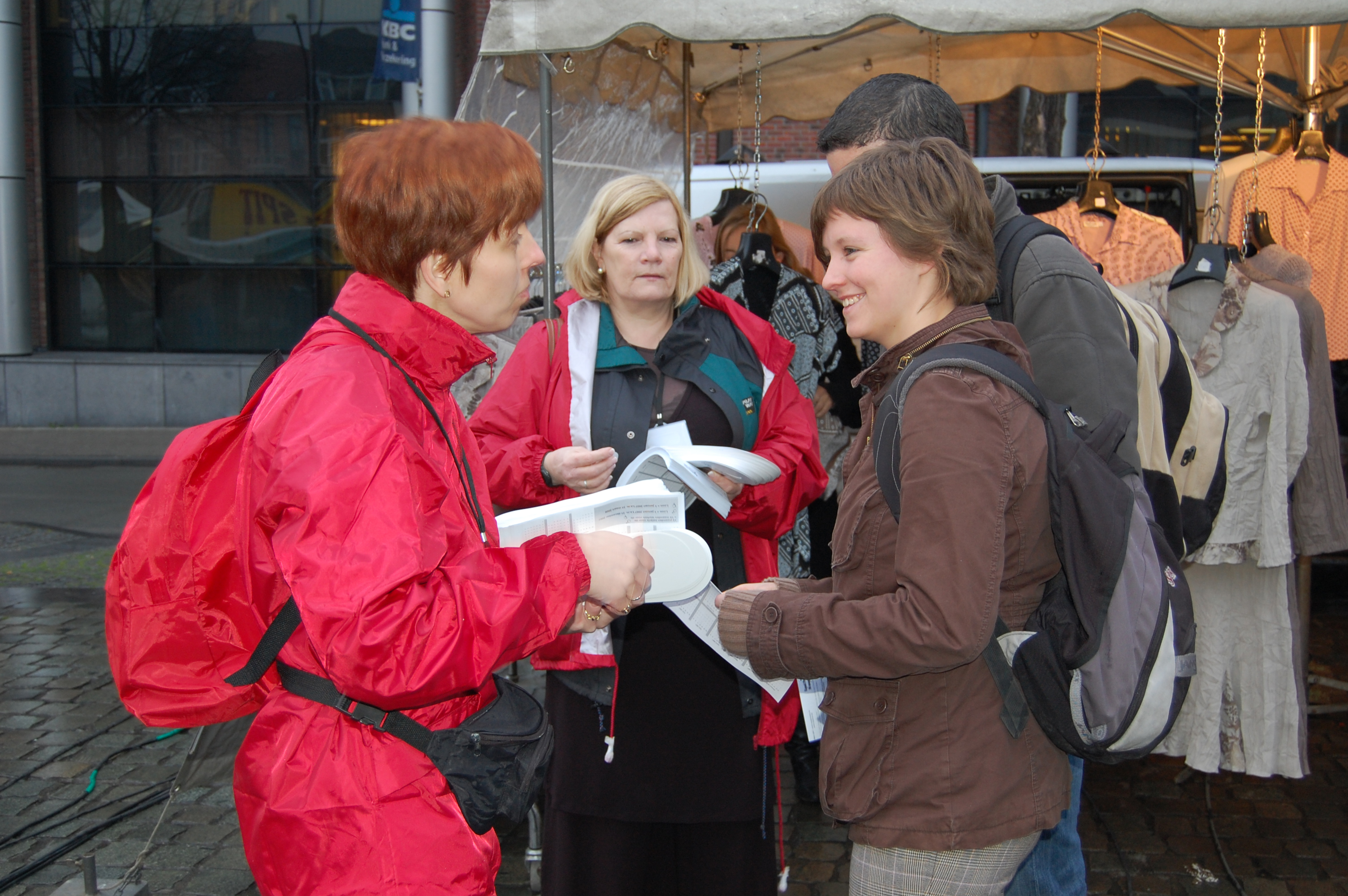 Pictures from Equal Pay Day actions in Leuven.